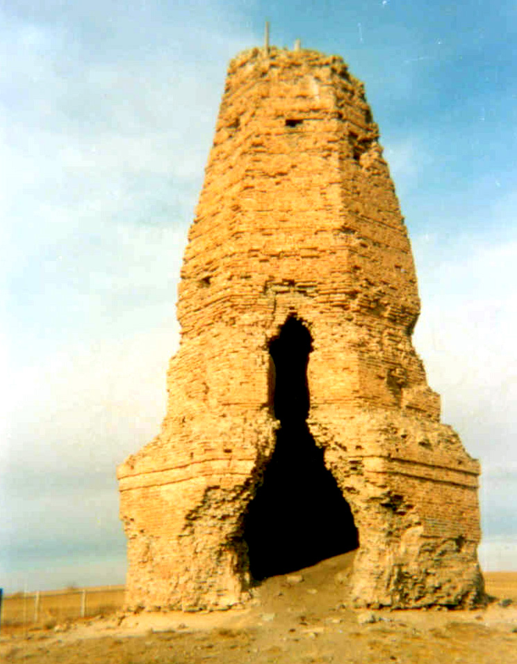 Stupa of a Kidan city in Eastern Mongolia